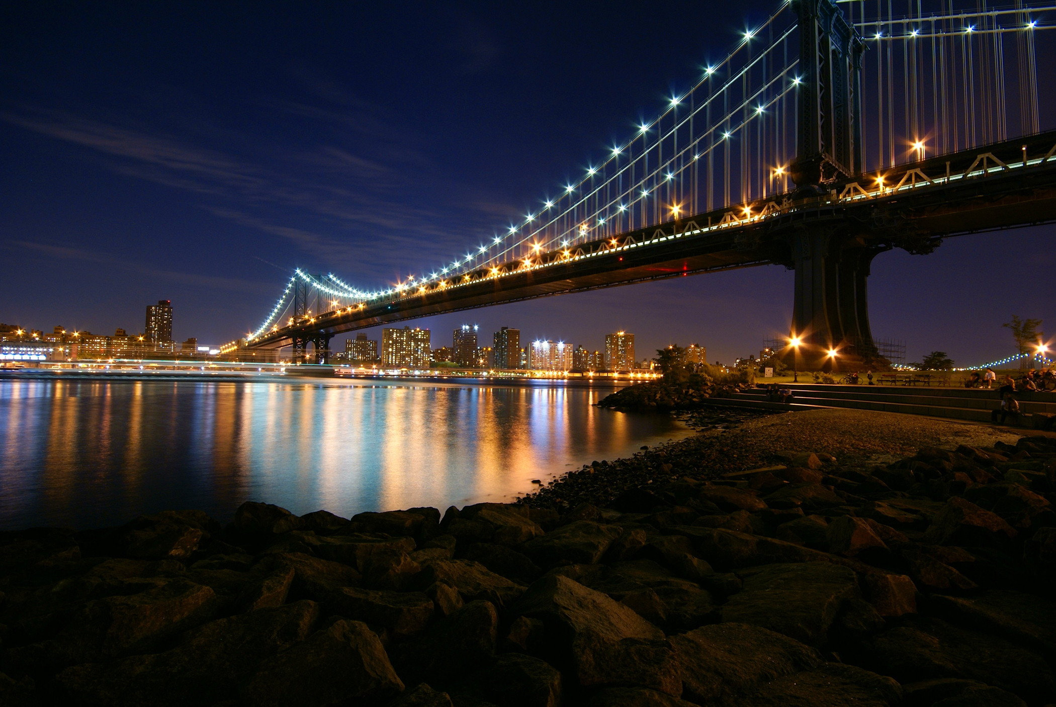 Manhattan Bridge as seen from Brooklyn.